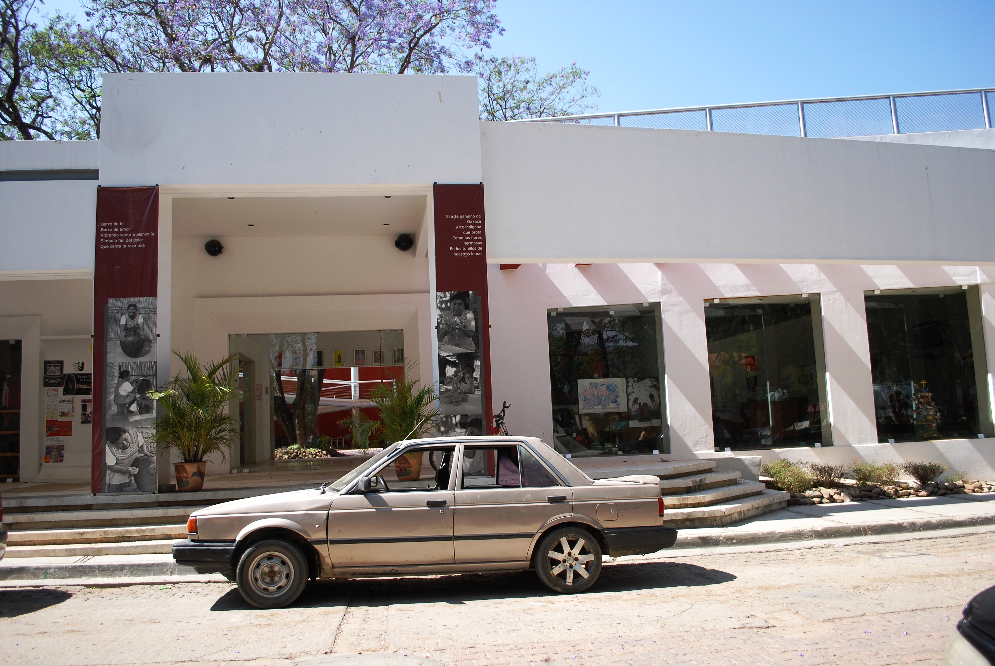 facade of Museo Estatal de Arte Popular de Oaxaca in San Bartolo Coyotepec, Oaxaca, Mexico